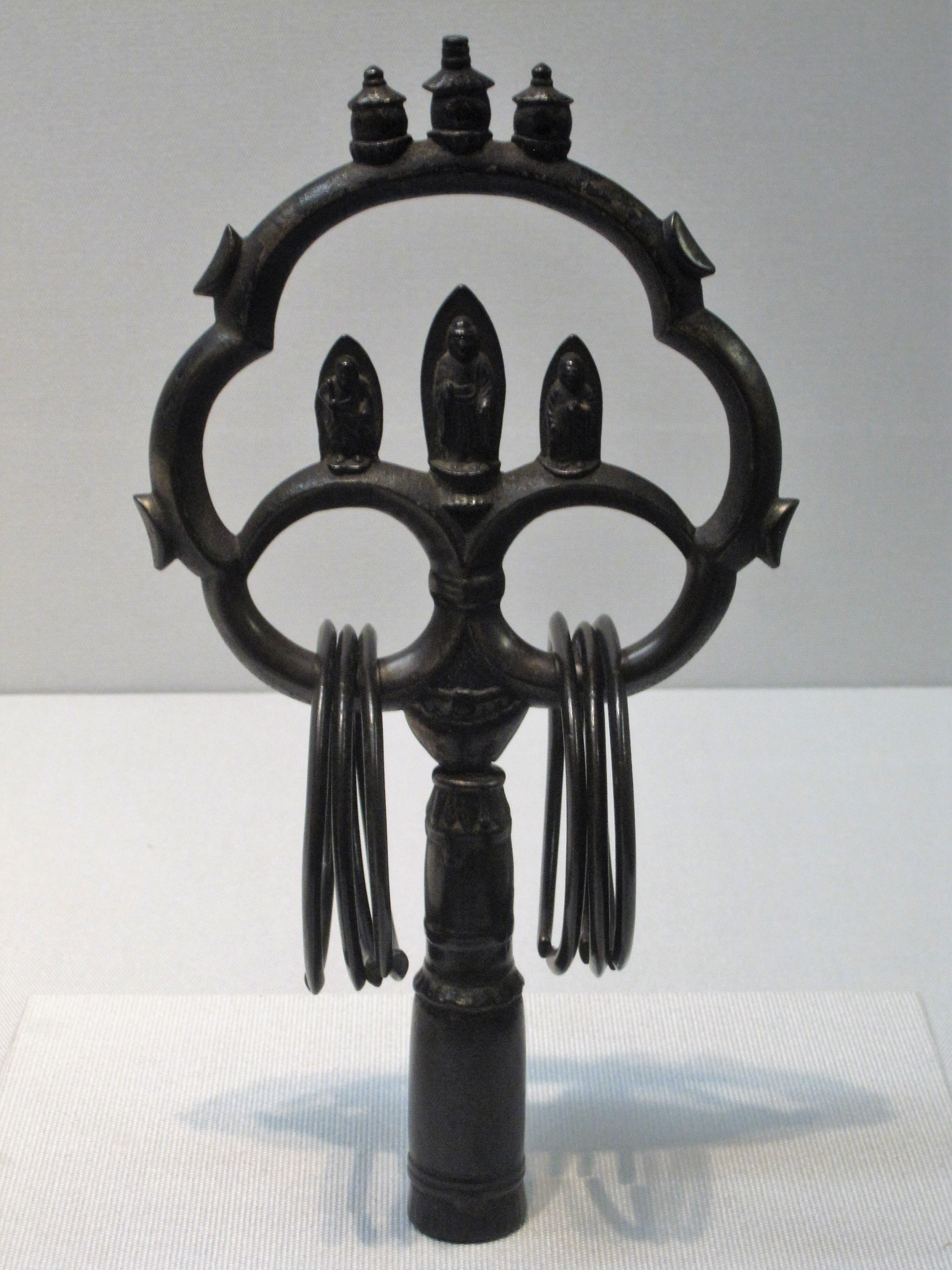 The bronze head of shakujo (khakkhara) made in 1142 (Important Cultural Property), the collection of Tesshu-ji temple, Shizuoka, Shizuoka prefecture, Japan. Displayed in Tokyo National Museum.